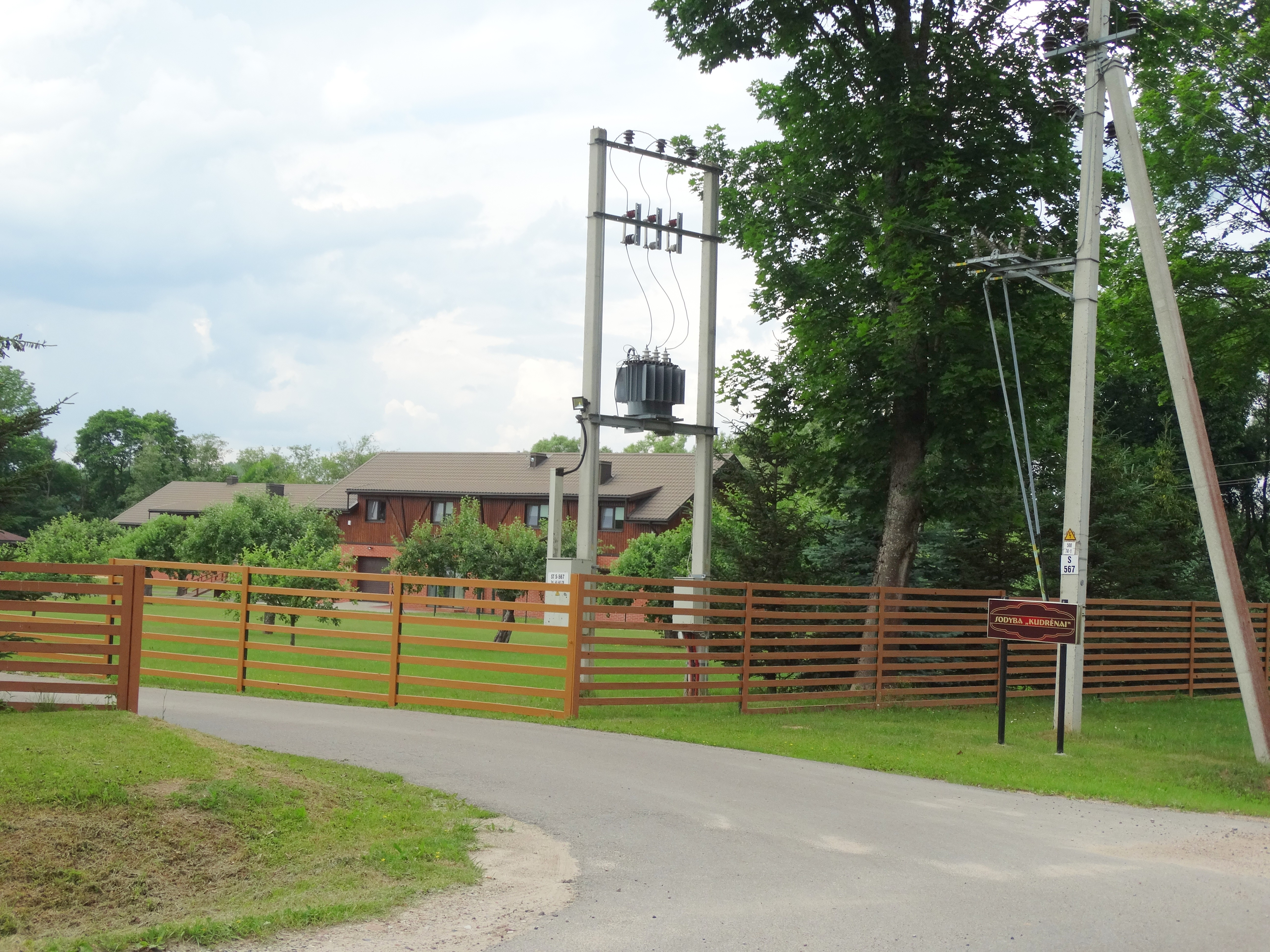 Kudrėnai, Kaunas District, Lithuania